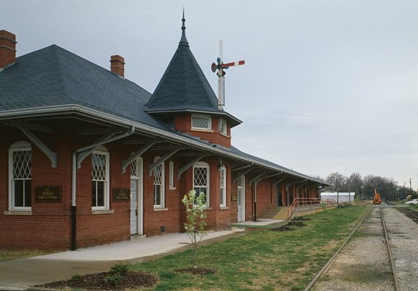 Southern Railway Combined Depot, West side of Belton Public Square, Belton (Anderson County, South Carolina) - cropped This file comes from the Historic American Buildings Survey (HABS), Historic American Engineering Record (HAER) or Historic American Landscapes Survey (HALS). These are programs of the National Park Service established for the purpose of documenting historic places. Records consist of measured drawings, archival photographs, and written reports. When reusing please credit: Library of Congress, Prints & Photographs Division, SC,4-BELT,1A-8 This tag does not indicate the copyright status of the attached work. A normal copyright tag is still required. See Commons:Licensing. This work is in the public domain in the United States because it is a work prepared by an officer or employee of the United States Government as part of that person’s official duties under the terms of Title 17, Chapter 1, Section 105 of the US Code. Note: This only applies to original works of the Federal Government and not to the work of any individual U.S. state, territory, commonwealth, county, municipality, or any other subdivision. This template also does not apply to postage stamp designs published by the United States Postal Service since 1978. (See § 313.6(C)(1) of Compendium of U.S. Copyright Office Practices). It also does not apply to certain US coins; see The US Mint Terms of Use. This file has been identified as being free of known restrictions under copyright law, including all related and neighboring rights. This image or media file contains material based on a work of a United States Department of the Interior employee, created as part of that person's official duties. As a work of the U.S. federal government, such work is in the public domain in the United States. See the Department of the Interior copyright policy for more information. Object location34° 31′ 21″ N, 82° 29′ 41″ W